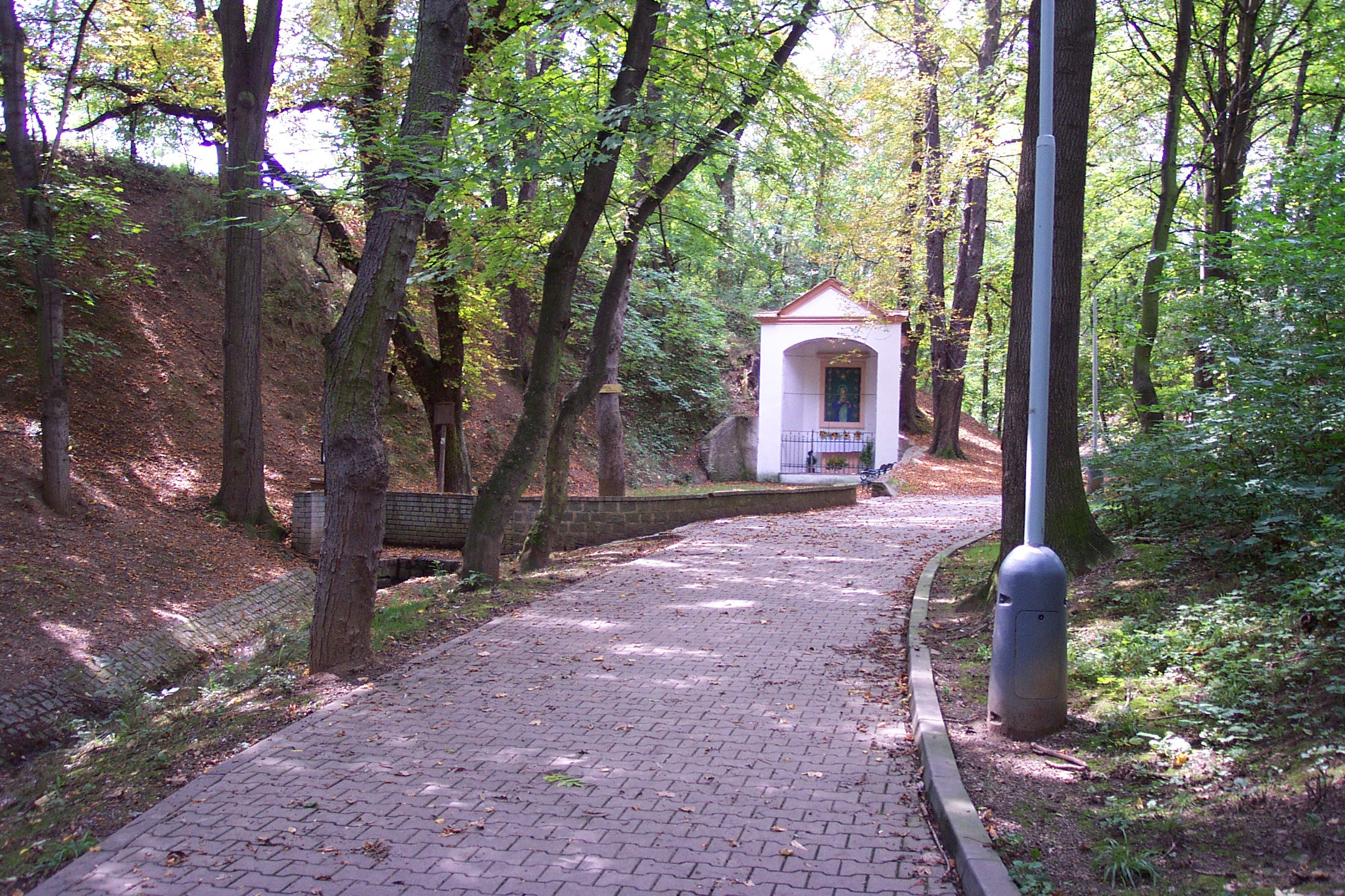 Prague-Lysolaje, Miraclous spring